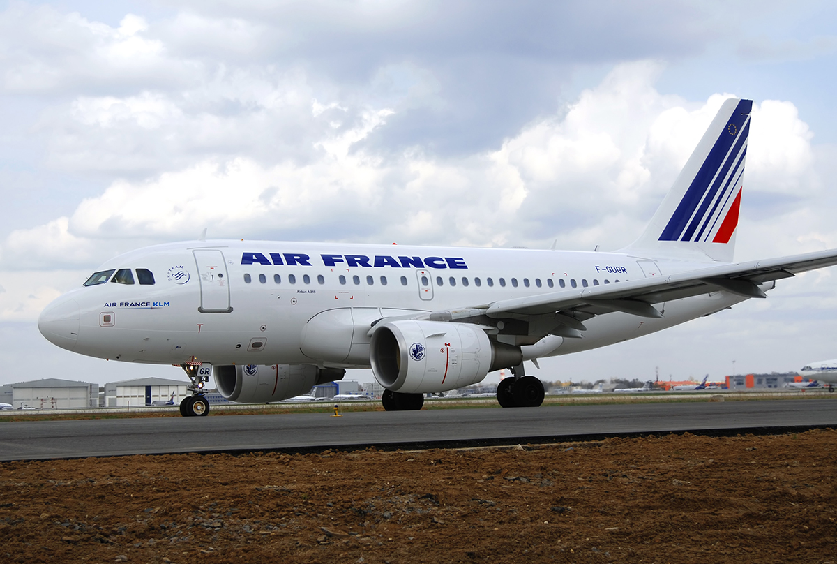 "Air France" A-318 F-GUGR